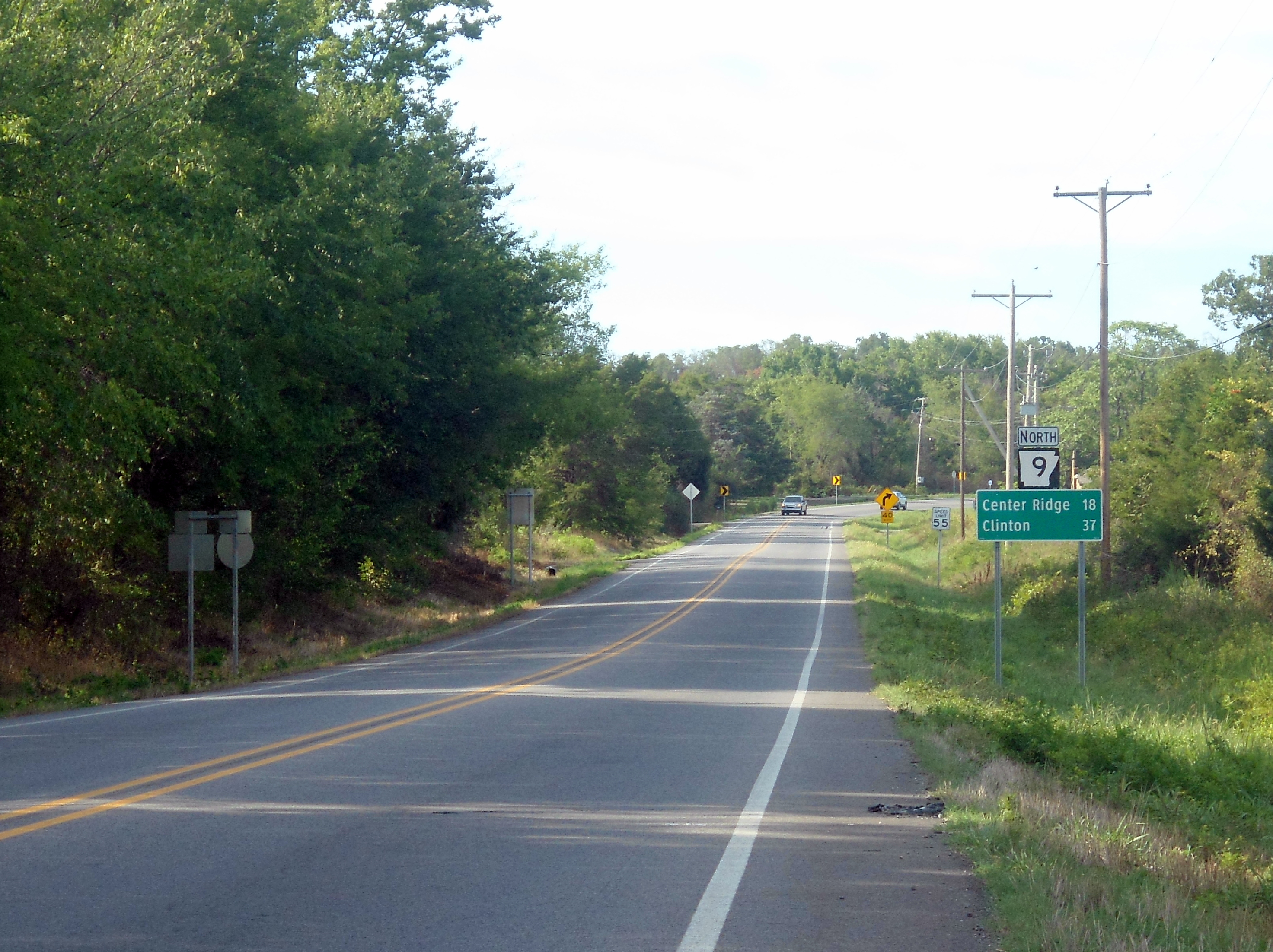 Highway 9 runs north in Morrilton, AR. This is just north of the I-40 junction